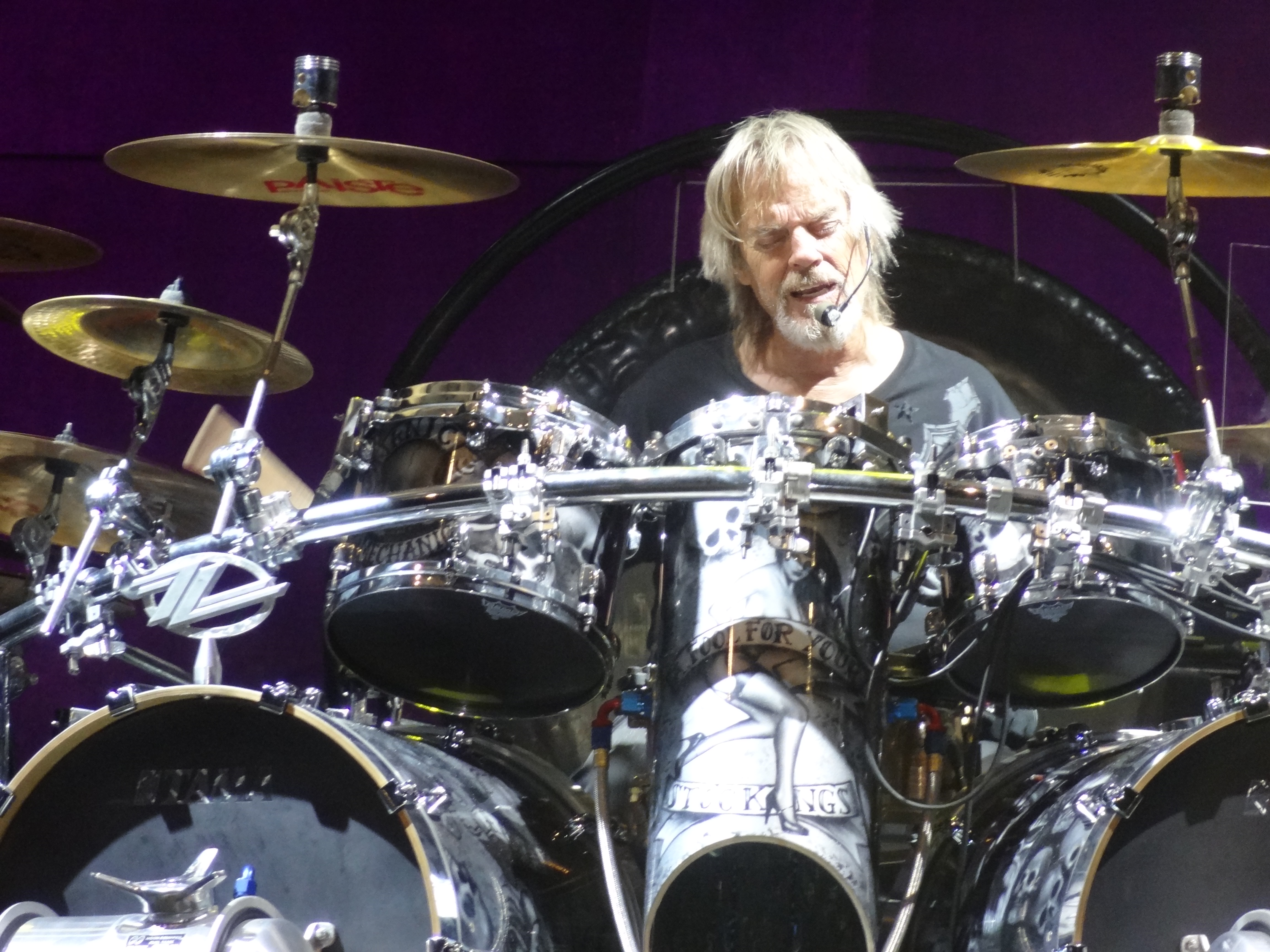 Frank Beard performing with ZZ Top, in Milan, June 30th 2014